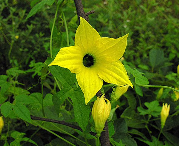 Dick Culbert: A flower of the Schizocarpum parviflorum vine. It calls south Mexico home, in this case the Oaxaca area.